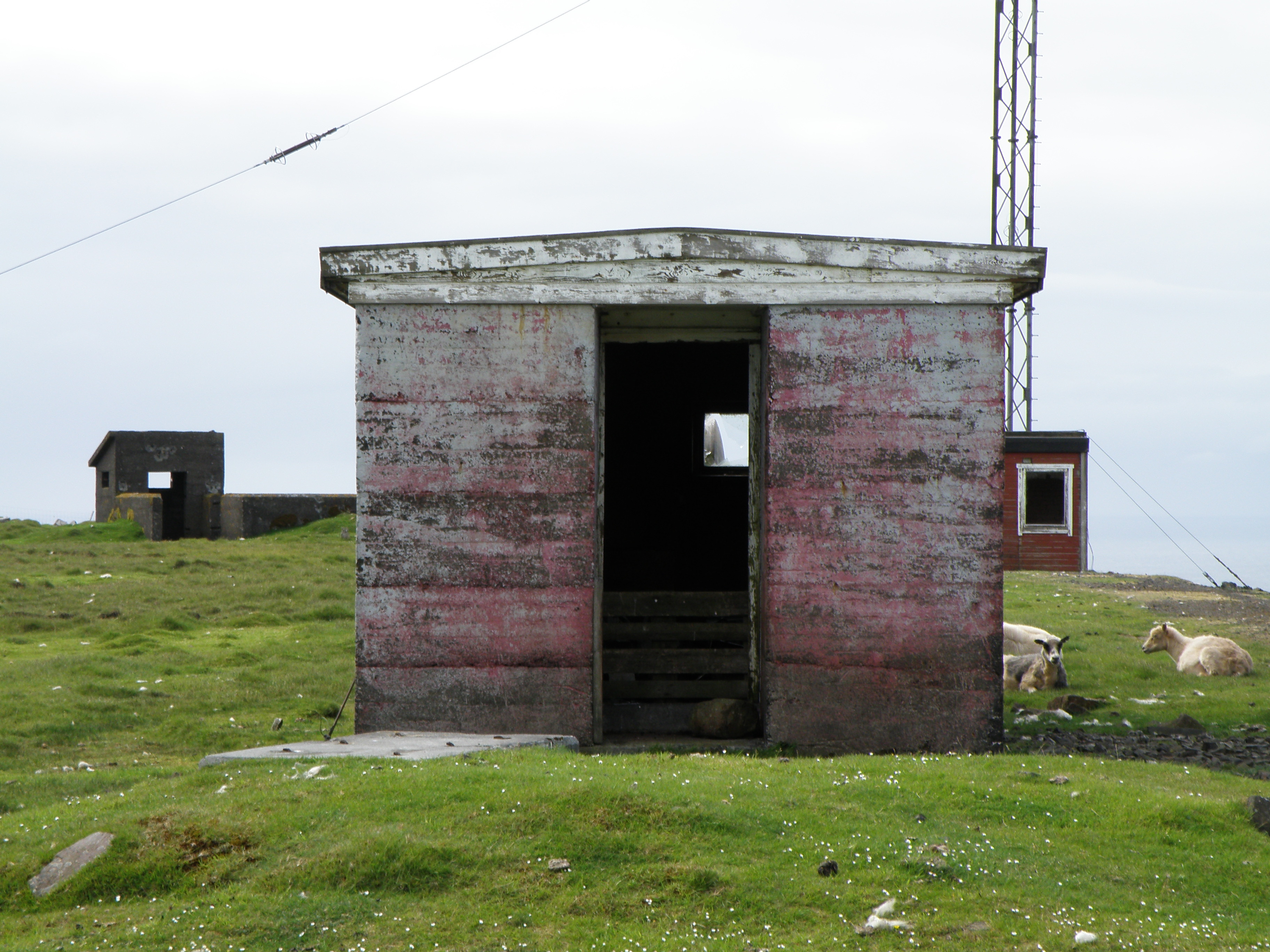 British pillboxes in Akraberg in the island Suðuroy, Faroe Islands. These buildings are World War II ruins, made by fortified concrete. The Faroe Islands is a part of the Danish state. But at the beginning of World War II Denmark was occupied by Germany and the Faroe Islands were occupied by Great Britain. People could not travel between the Faroe Islands and Denmark during the World War II period. The Faroe Islands lost many people in WW2 because they had many fishing vessels which were fishing in the North Atlantic, and some of them got bombed by German submarines or had other kind of accidents during the war. The Faroe Islands lost more people per capita than Denmark because of war casualties. This photo is also on my photostream on Flickr